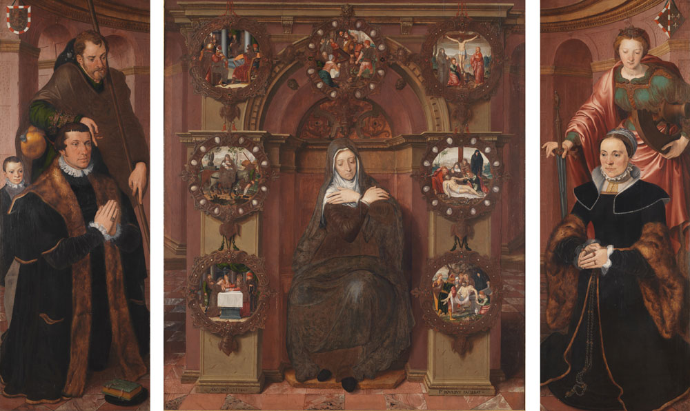 Pourbus-Vanbelle-Triptiek